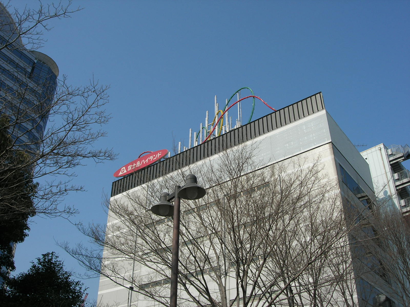 The Tokyo headquarters of Fuji Kyuko, located at 1-55-7 Hatsudai, Shibuya-ku, Tokyo.